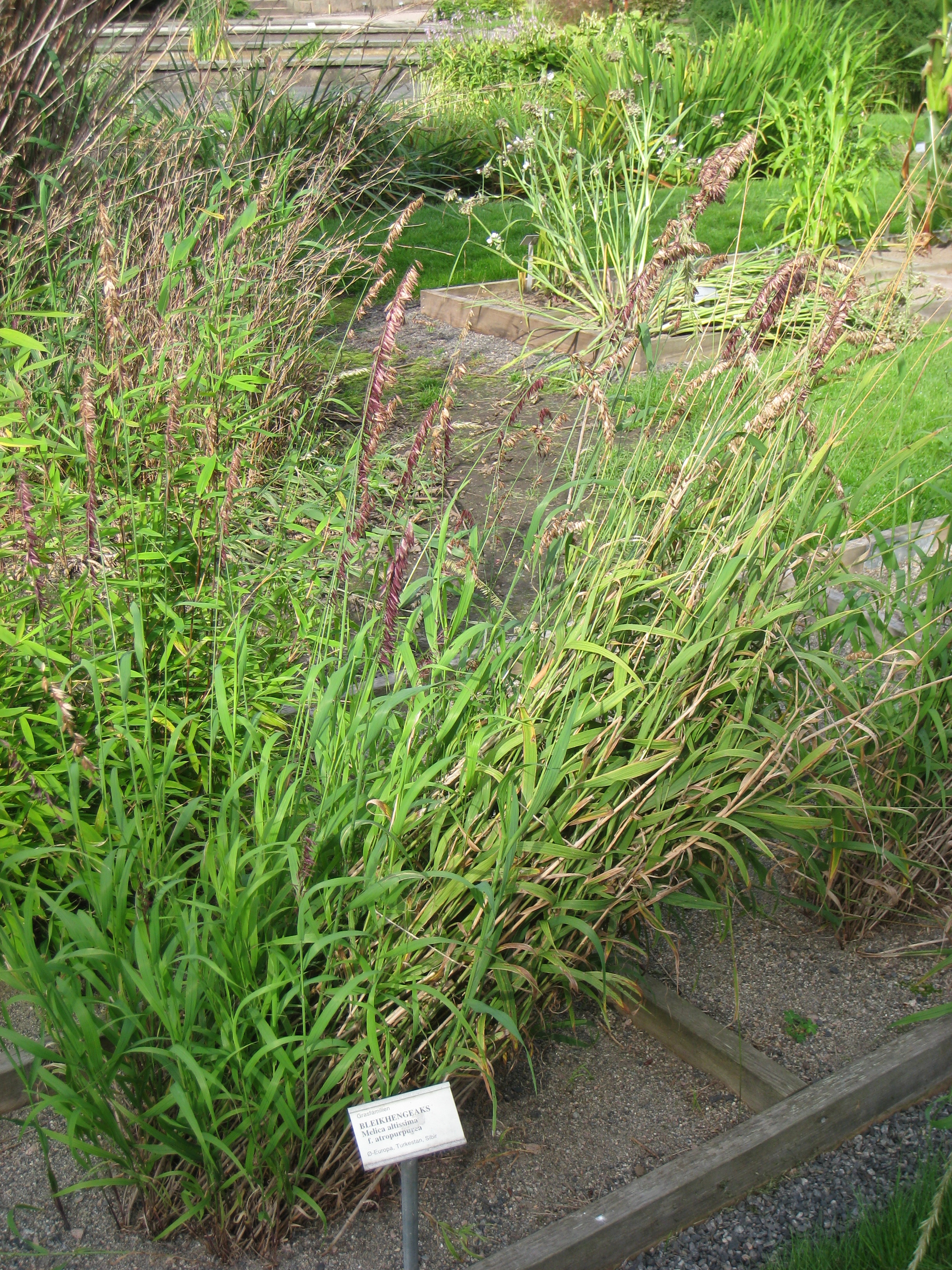 Melica altissima 'Atropurpurea' - Oslo botanical garden, Oslo, Norway.